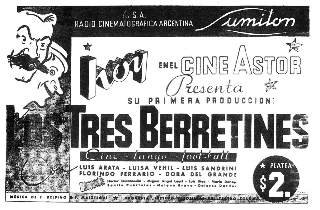 Poster for the 1933 Argentine film Los tres berretines (The Three Whims)